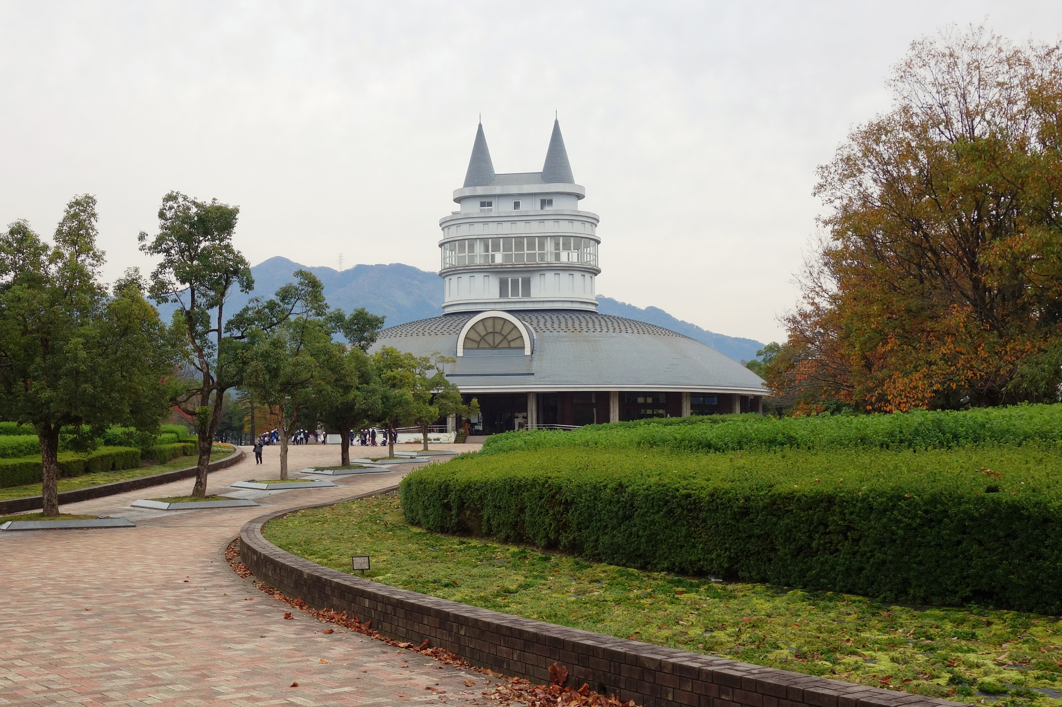 "Woodream Fukui", Fukui-ken Sogo Green Center (Sakai-shi, Fukui Pref., Japan)